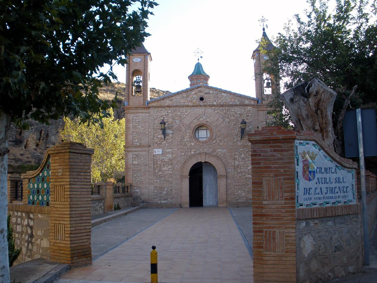 Ermita de Nuestra Señora de la Fuente, en Muel (Zaragoza, Aragón, España)